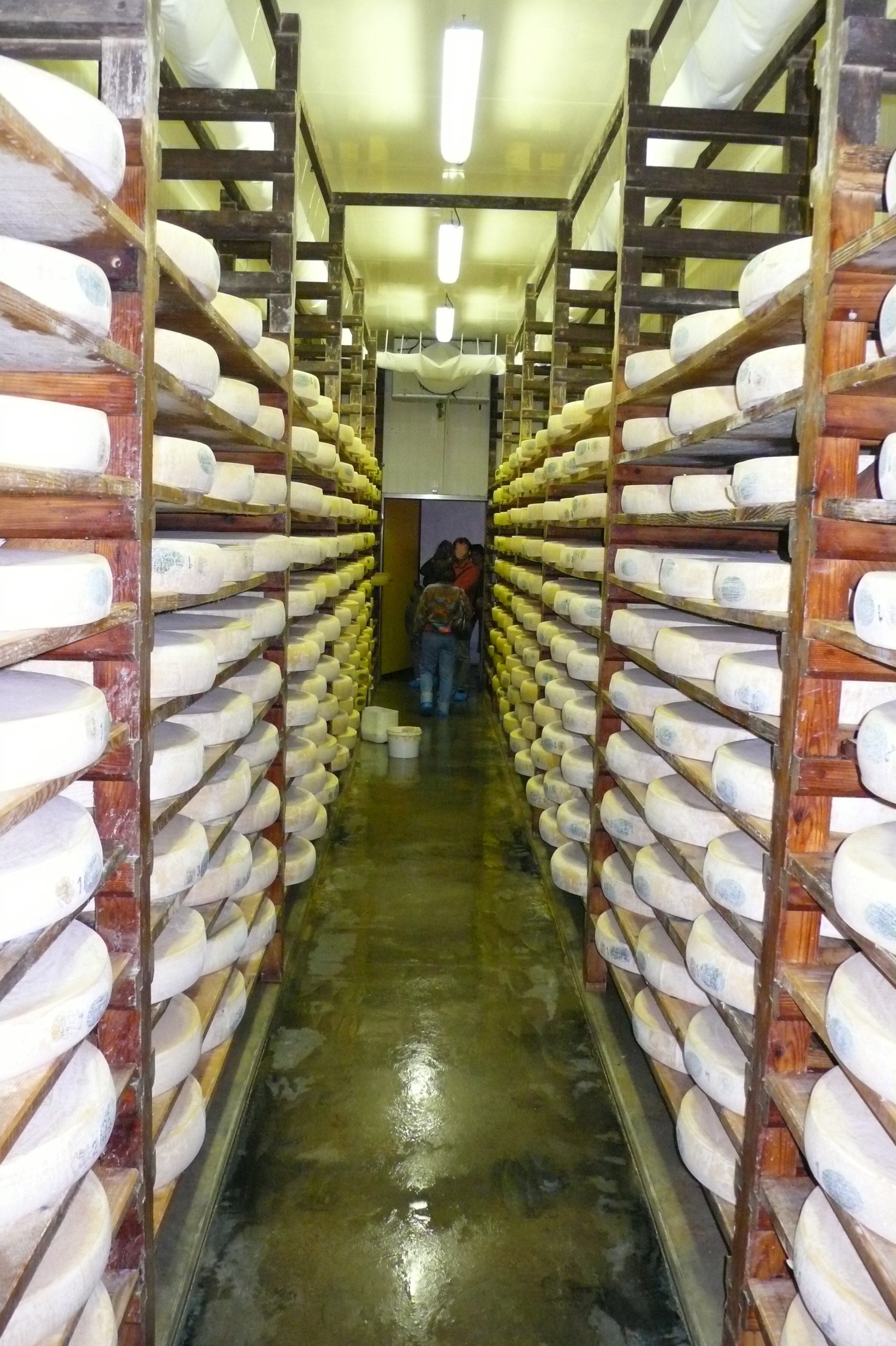 First step of "affinage", inside of the dairy of Fontain.